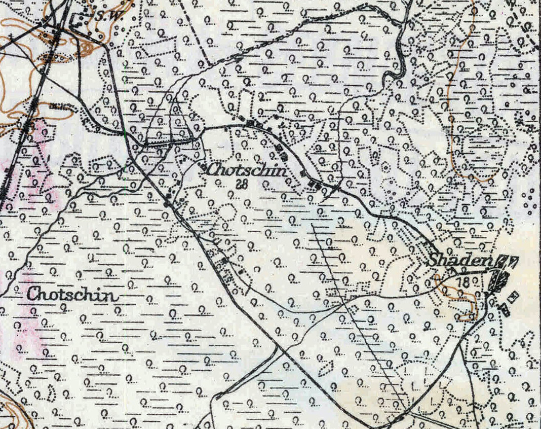 Khochyn on the map "Karte des Westlichen Russlands", T 35, 1917. According to Digital Repository of Scientific Institutes and Kujawsko-Pomorska Digital Library the map is in the public domain.